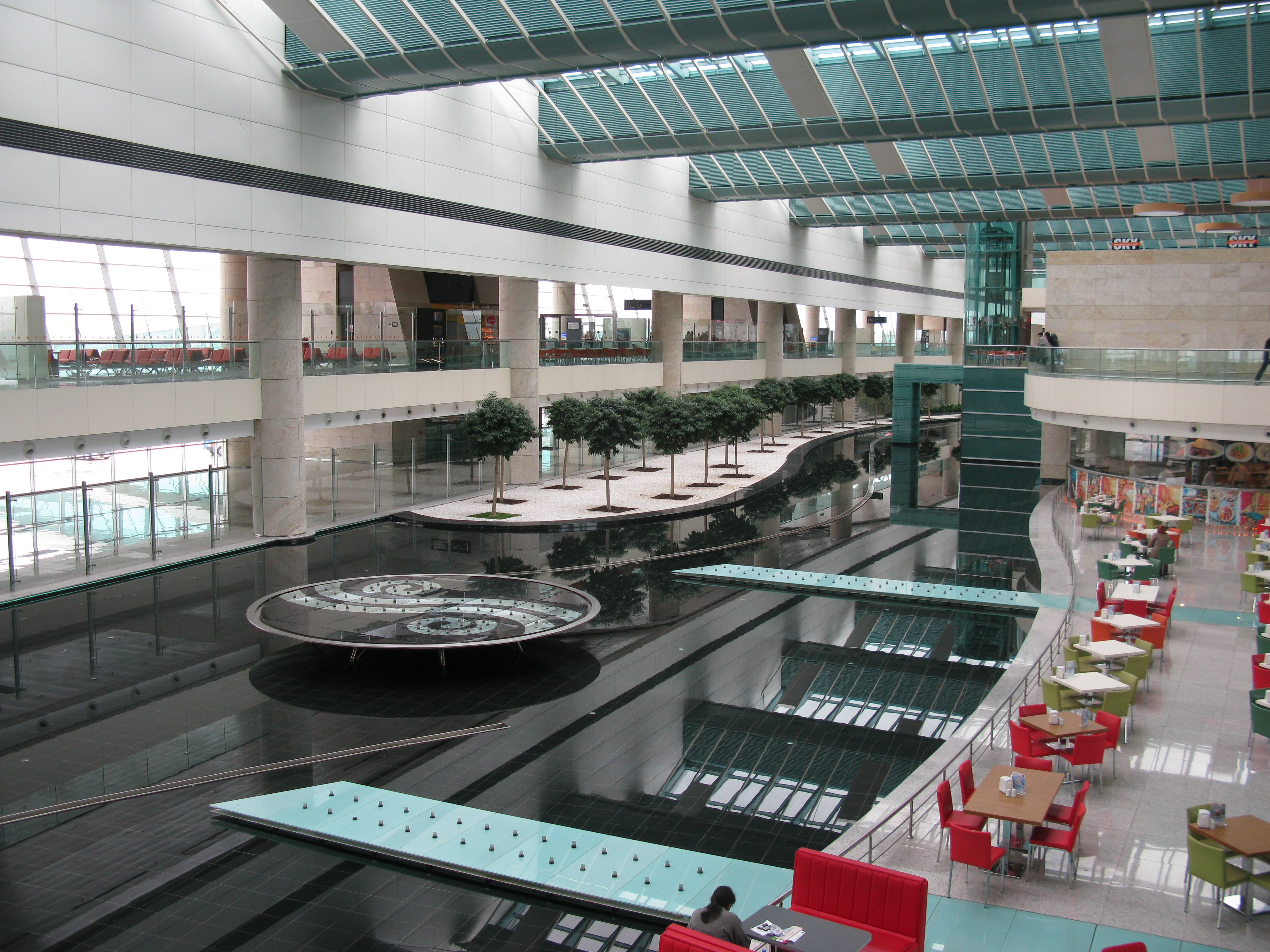 Airport Café at Esenboğa Havalimanı, Ankara, Turkey